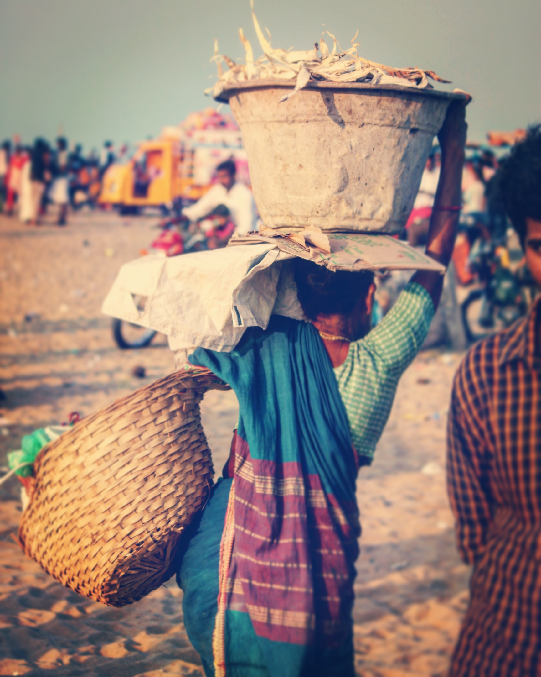 A women working in that hot sun carrying too heavy weight to make some profit so that her children could have some food.Incredible India. Poompugar, Tamil Nadu